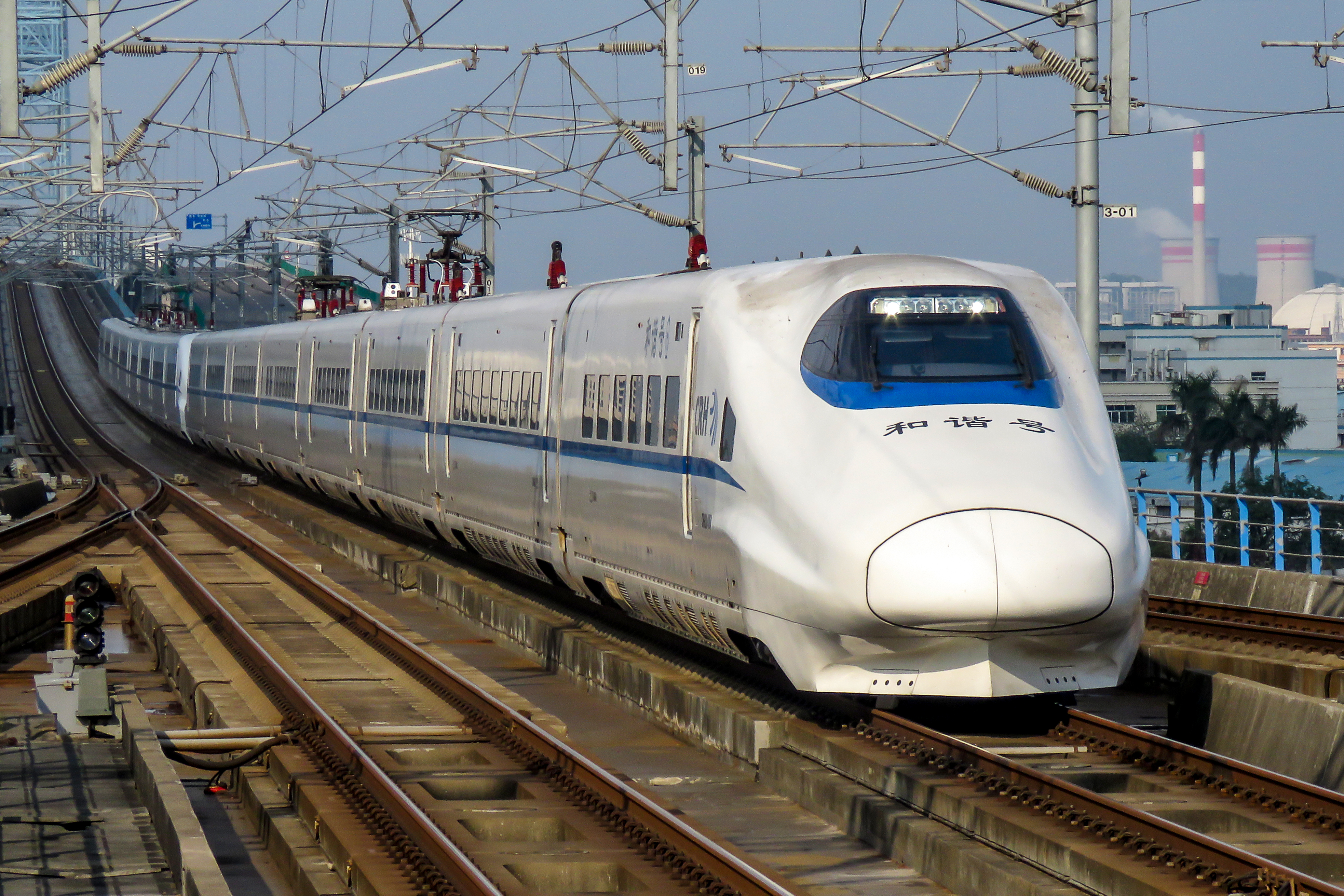 D1841 from Chengdu East to Zhuhai. Departing at 06:46, this must be an arduous journey... In addition, this angle is kind of Japanesque - after all, 2A is derived from E2-1000.